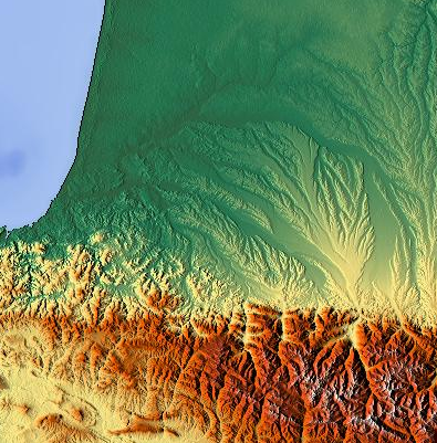 Topographic map of the of the Adour Basin (watershed) in southwestern France. Showing southern headwaters of the Adour river in the Pyrénées range.